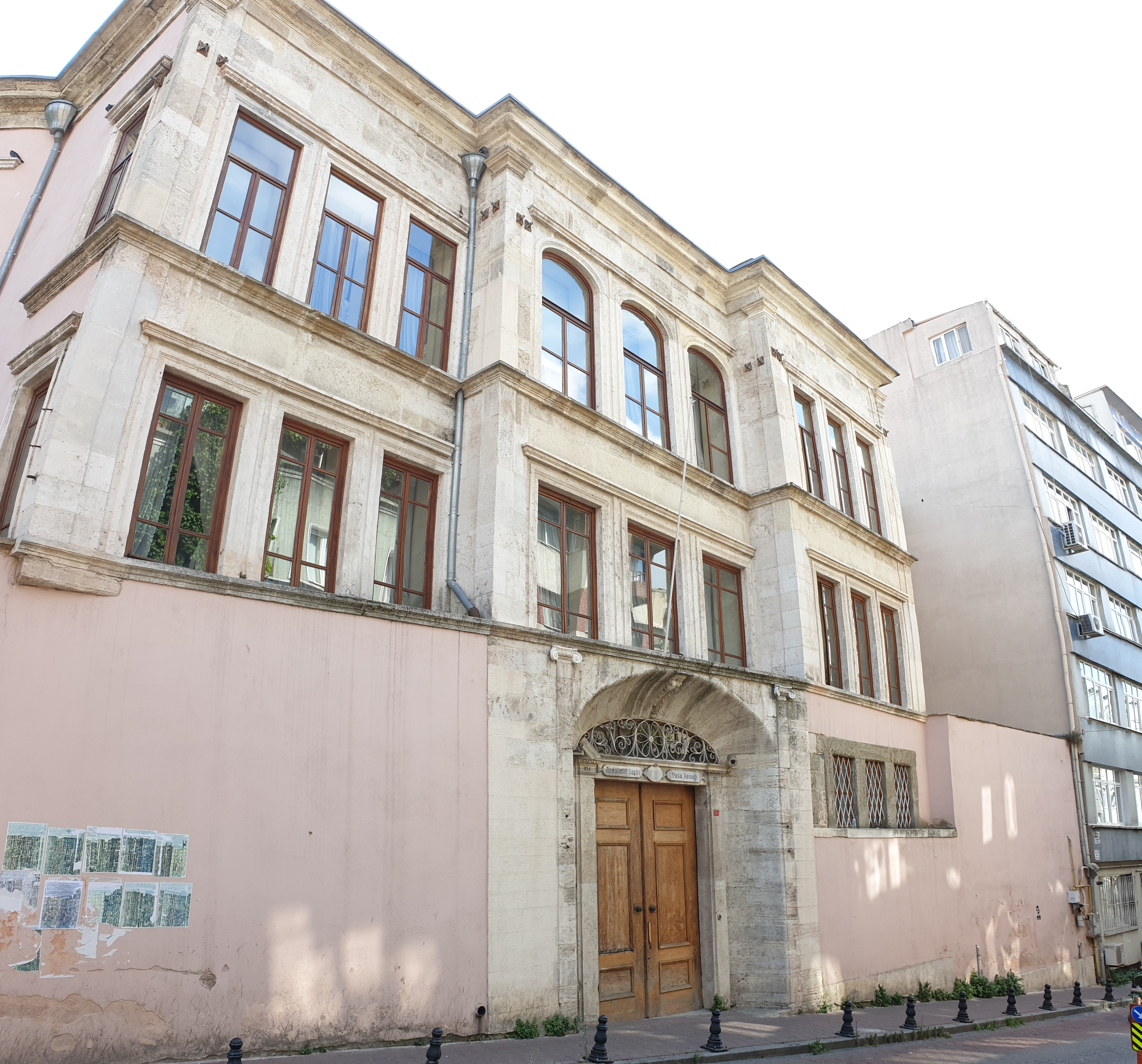 Abdüllatif Suphi Paşa Konağı'nın 11 Eylül 2019 tarihinde çekilmiş fotoğrafı